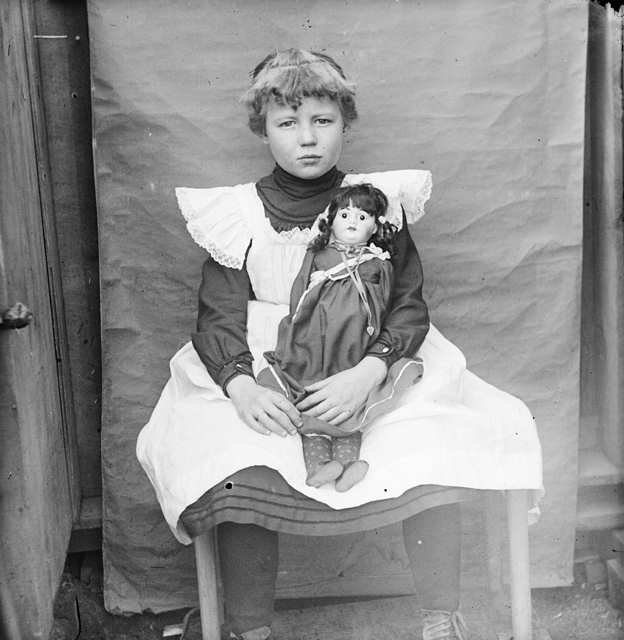 Portrait of a girl with a doll in Denver, Colorado. The girl is sitting before a backdrop wearing an apron over her dress. Black and White: 1 negative : glass ; 9 x 9 cm. (3 1/2 x 3 1/2 in.) 1 photoprint ; 19 x 19 cm. (7 1/2 x 7 1/2 in.) Accession number: 90.152.273. Source: Gift of John Werness.